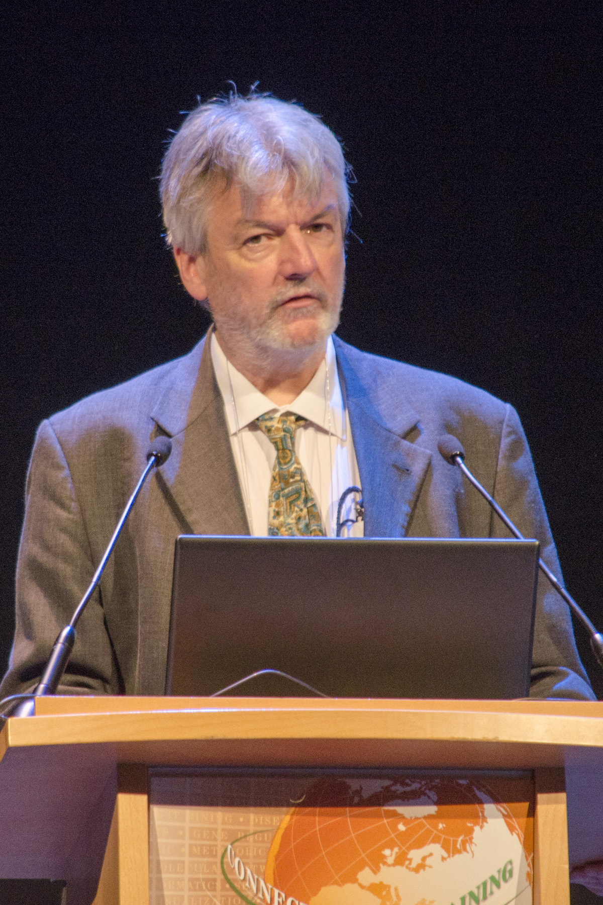 Des Higgins speaking at the Intelligent Systems for Molecular Biology conference in 2015